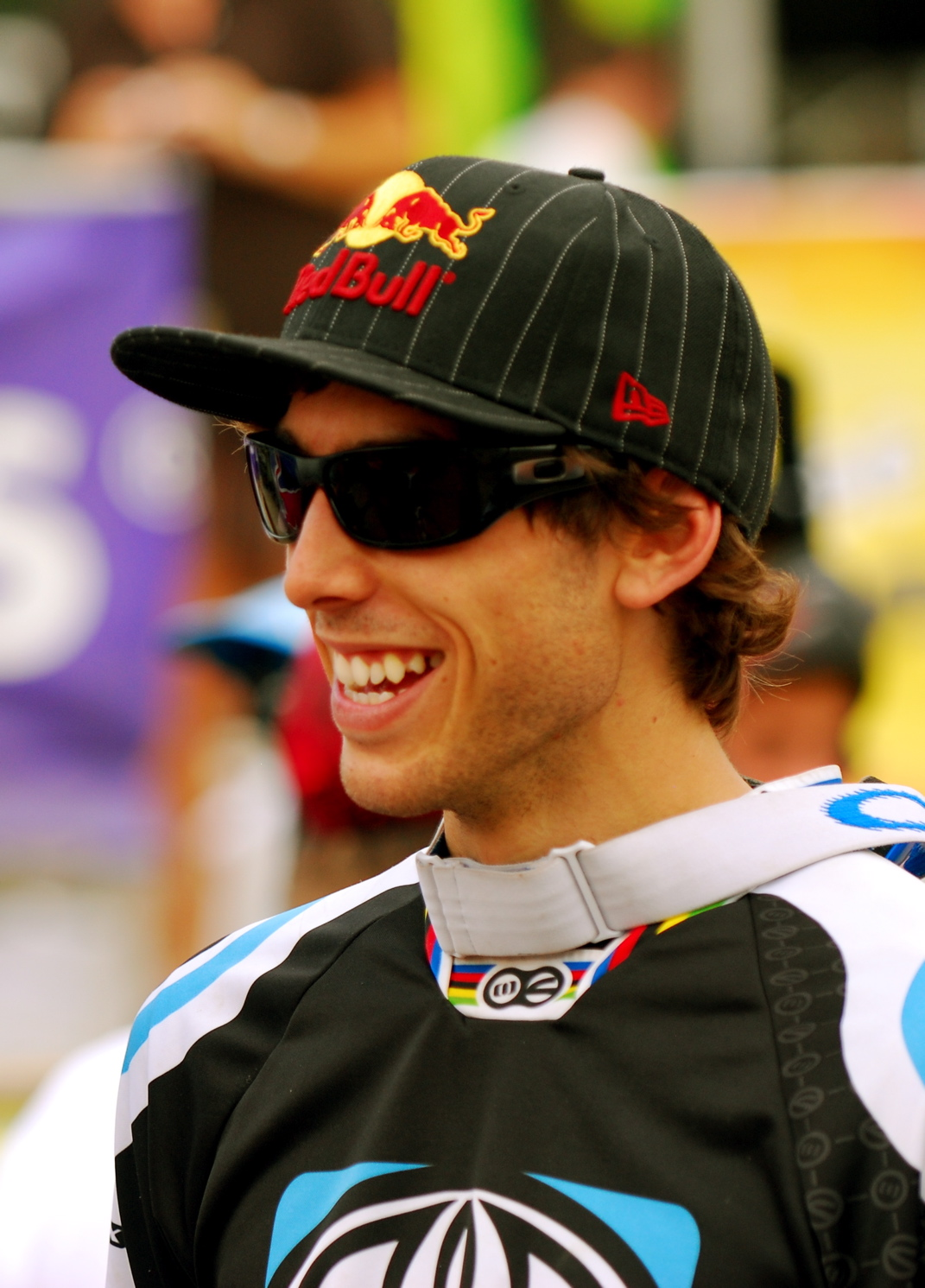 Gee Atherton